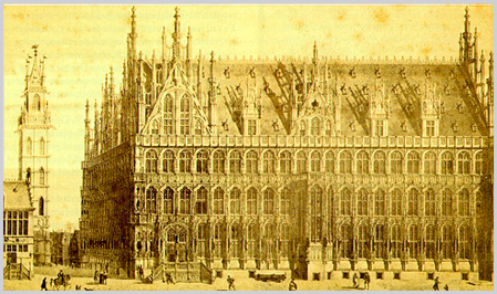 Stadhuis_Gent,_Belgium,_oorspronkelijk_ontwerp.jpg